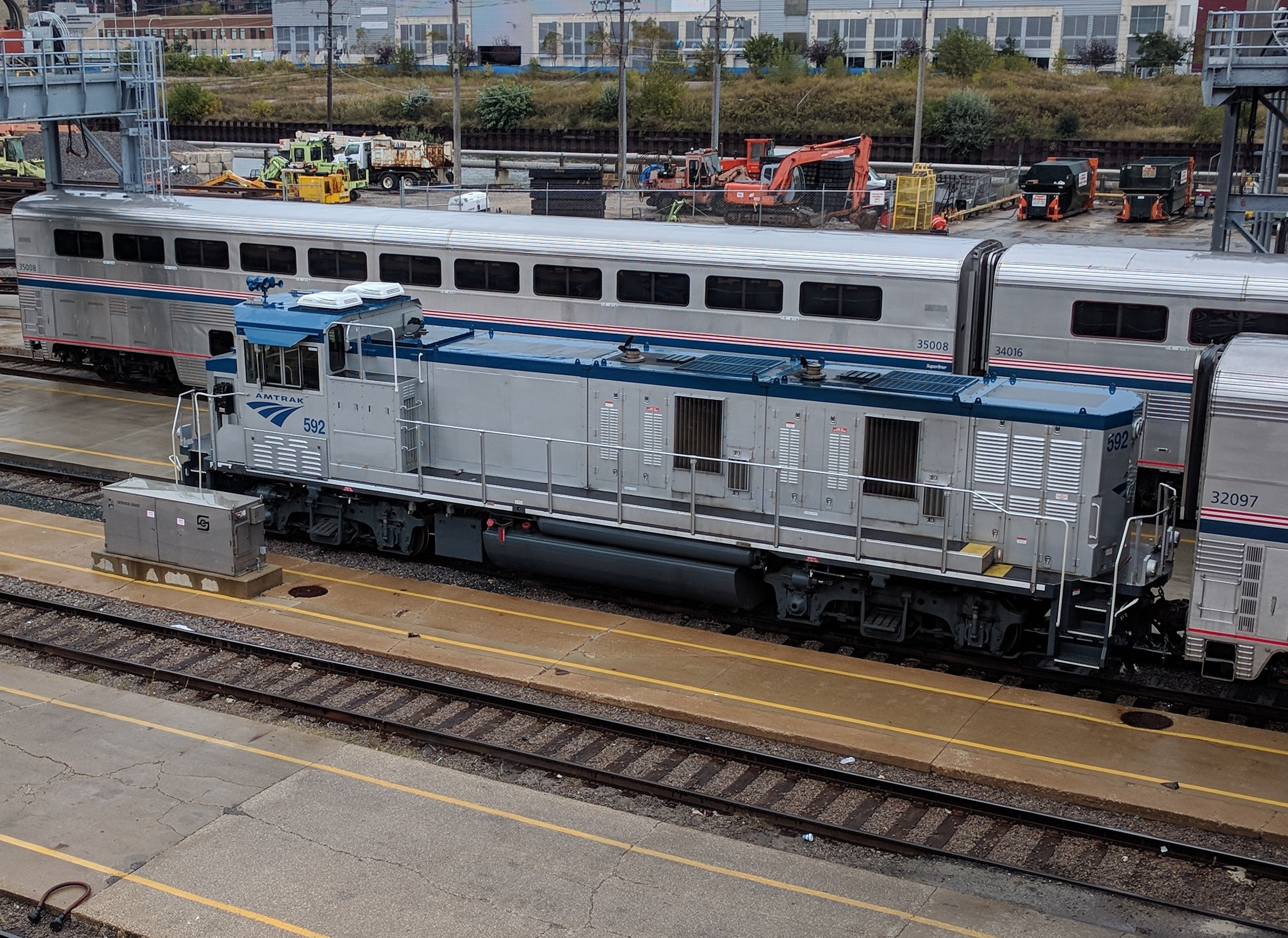 Amtrak MP14B switcher #592 at the 14th Street Coach Yard in October 2018